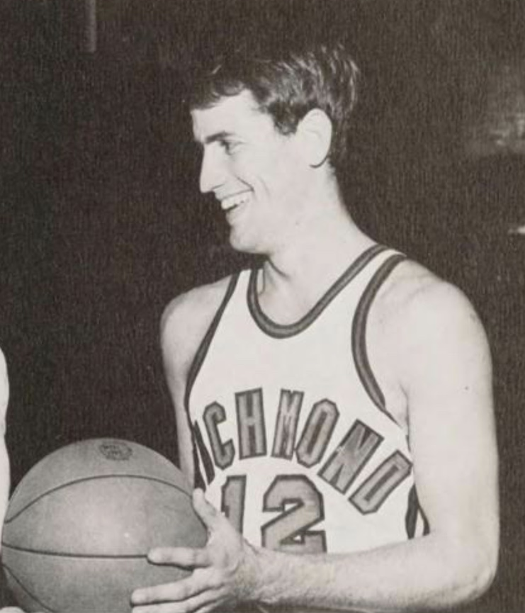 American college basketball player Johnny Moates of the University of Richmond Spiders in the 1966-67 NCAA season